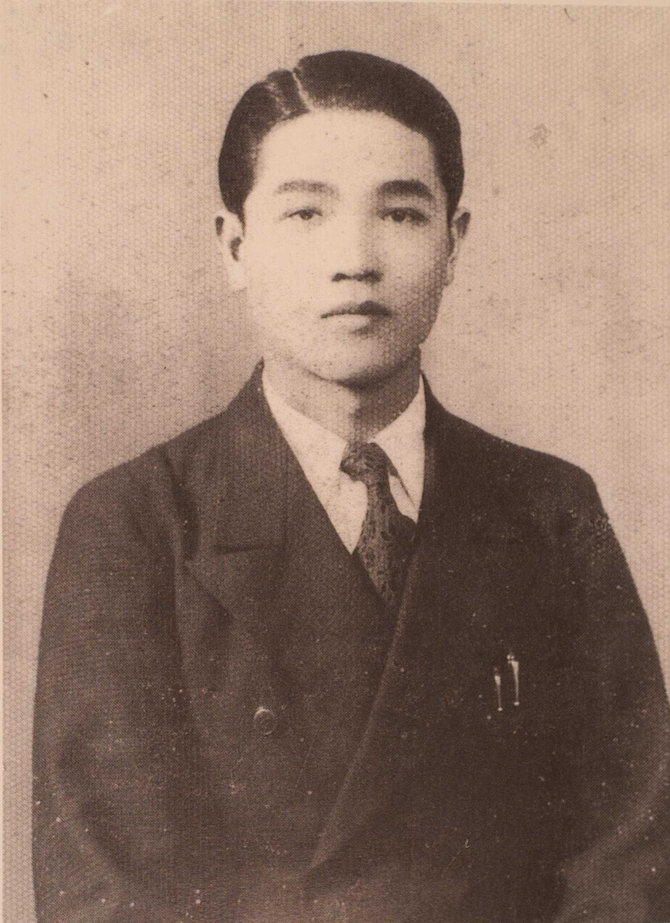 Chung Li-ho, circa 1941